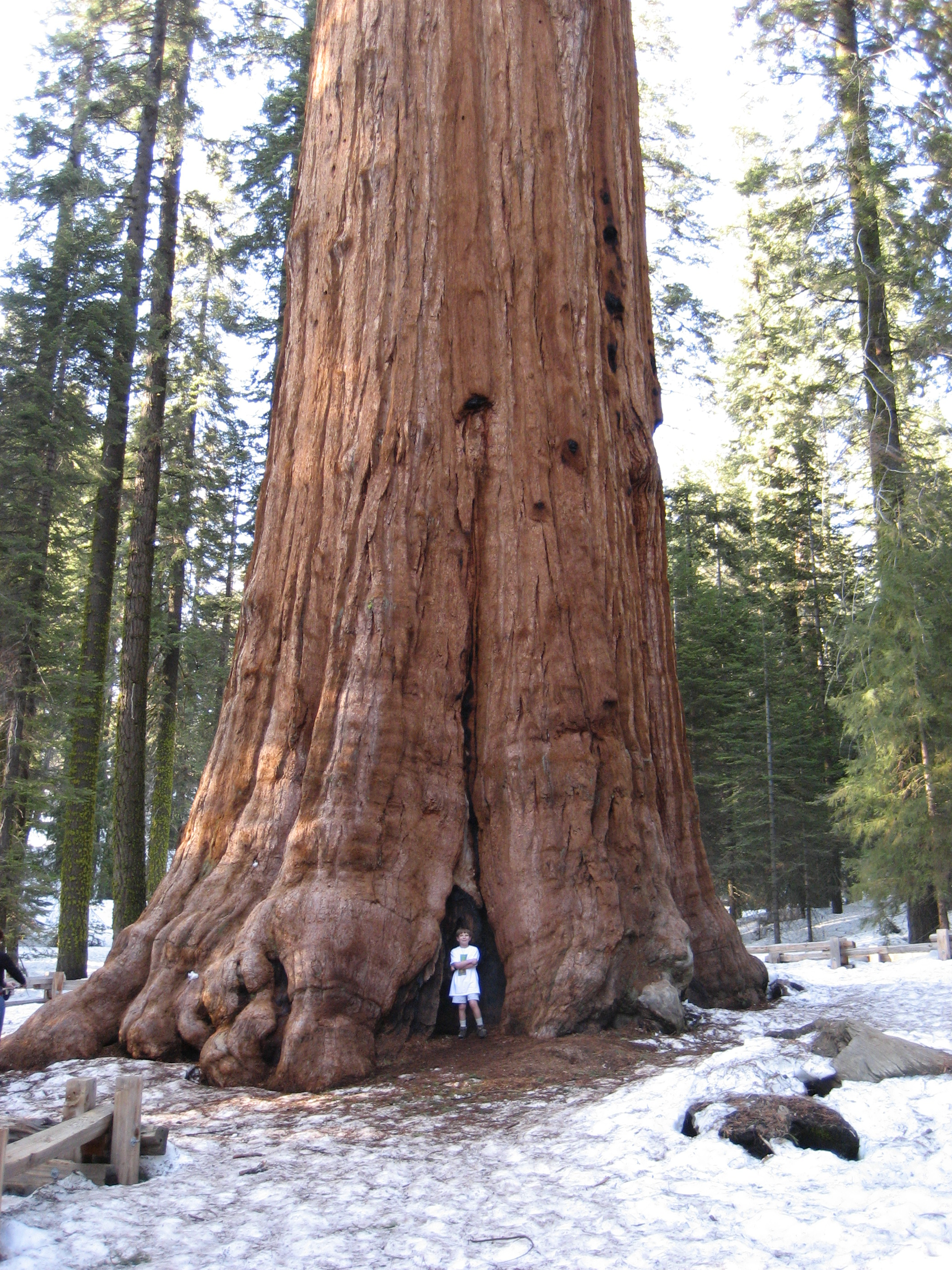 Ross and the General Sherman Tree